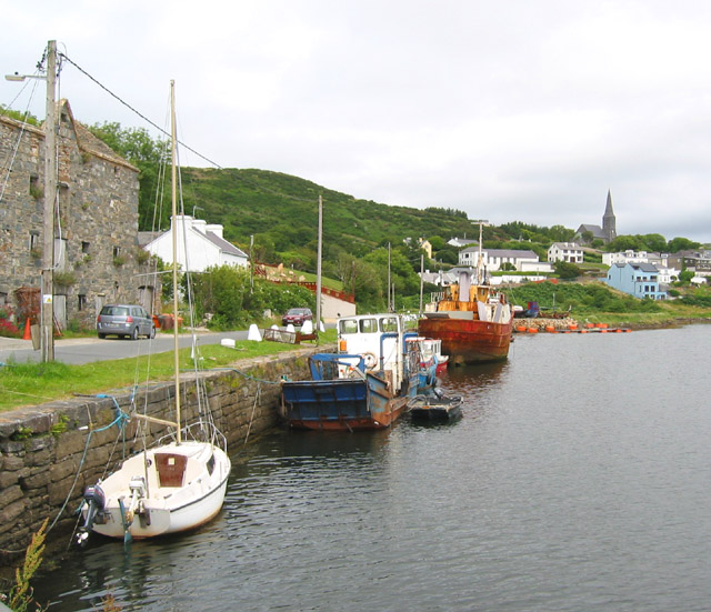 Quay at Clifden Harbour. By the lifeboat station. The pastel-painted buildings of Clifden are visible on the right